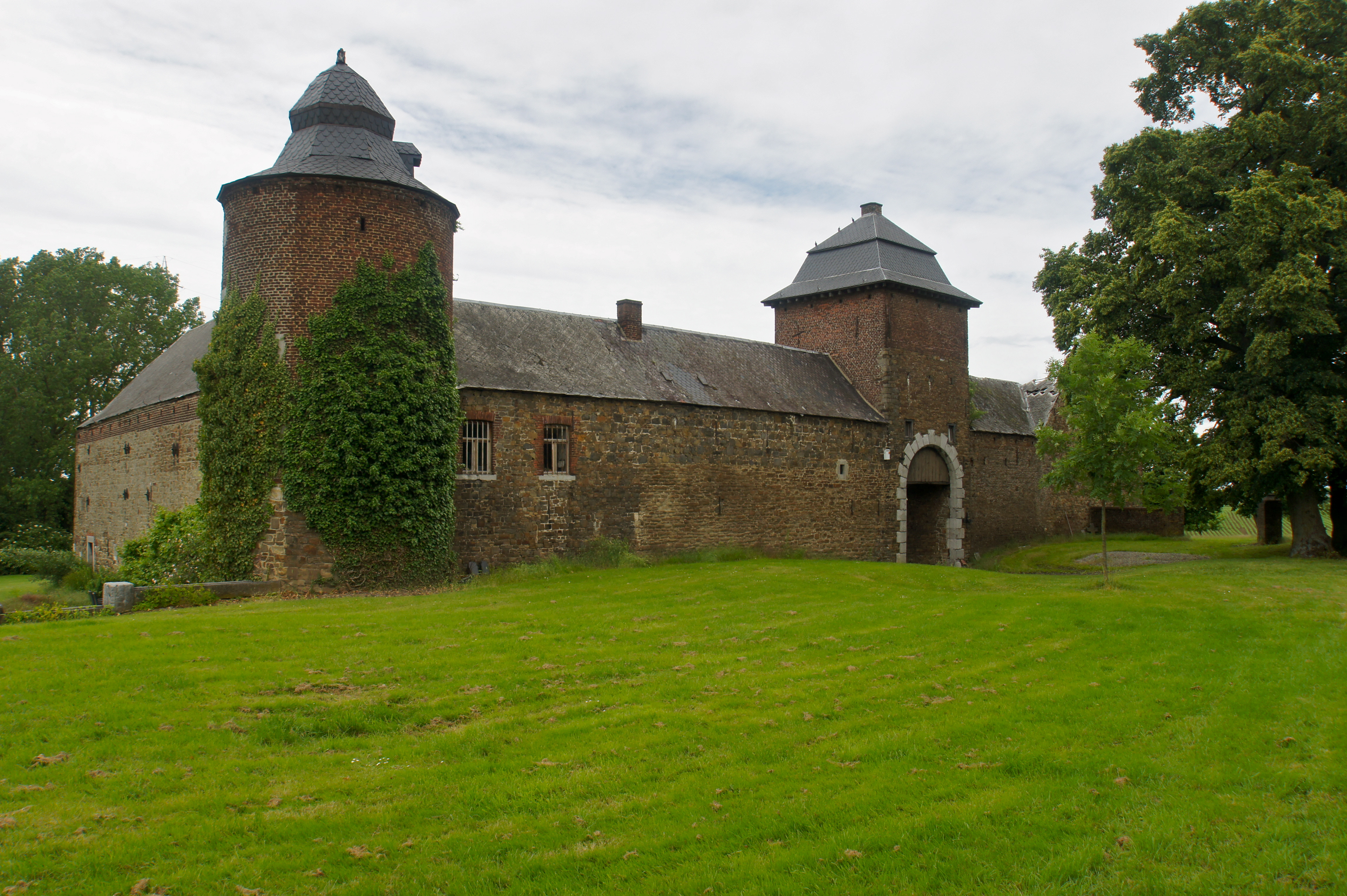 Blegny (Housse), Belgium: Castle Farm